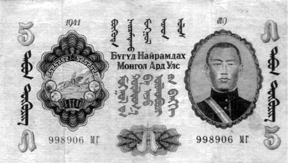 Mongolian 5 Tögrög note from 1941. This is the year of the introduction of the cyrillic script in Mongolia, which can be seen together with the traditional Mongolian script.